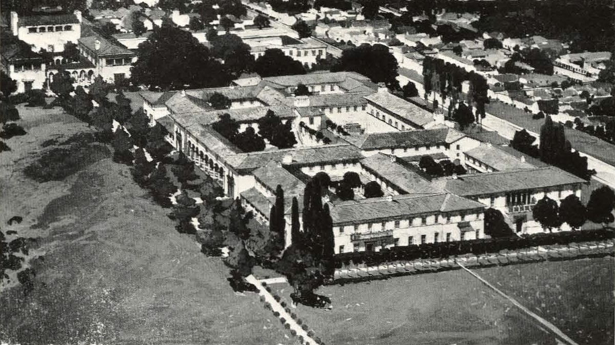 South Houses at the California Institute of Technology